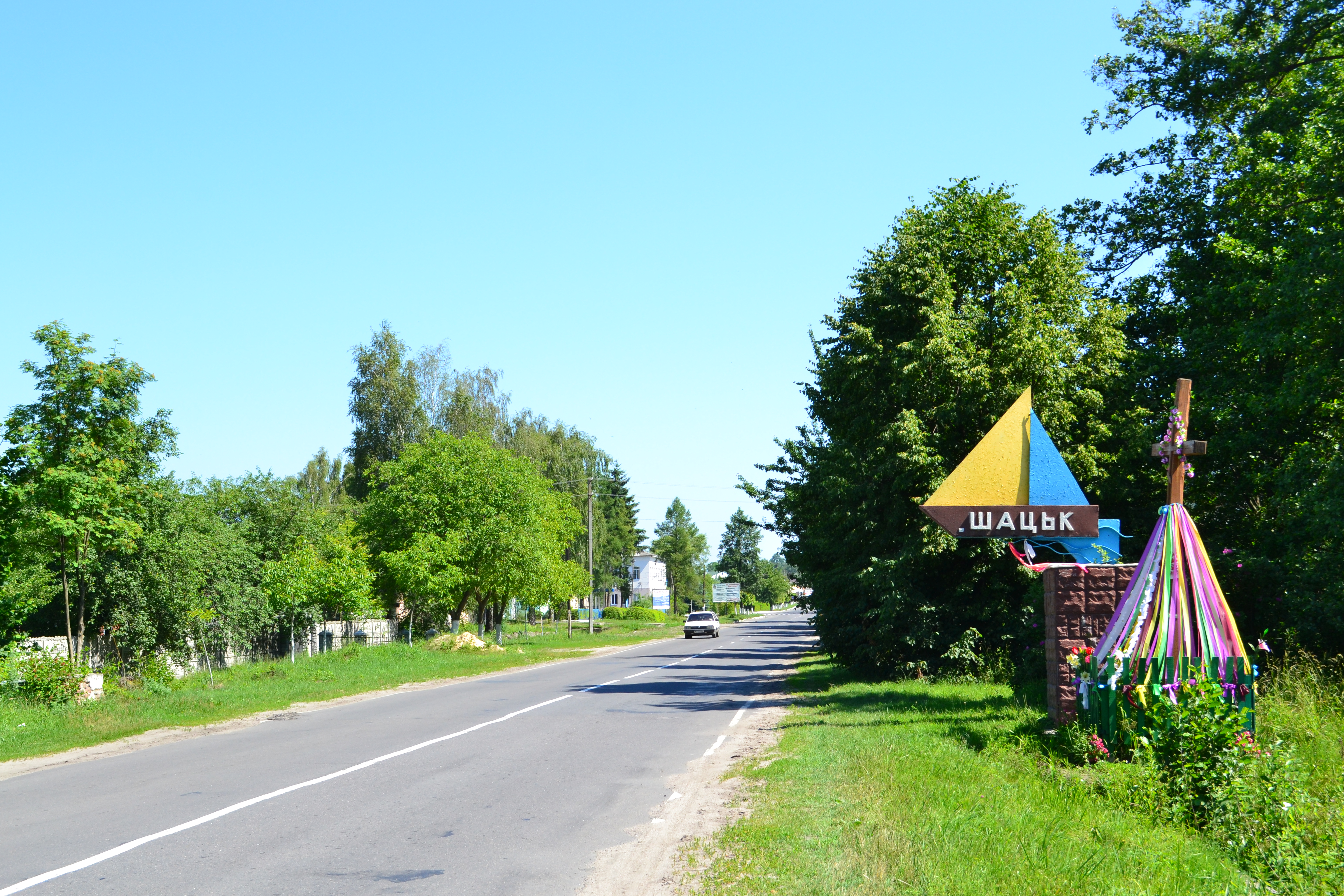 Entry to Shack, Ukraine